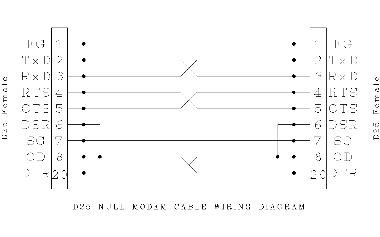 D25 to D25 null-modem cable wiring diagram